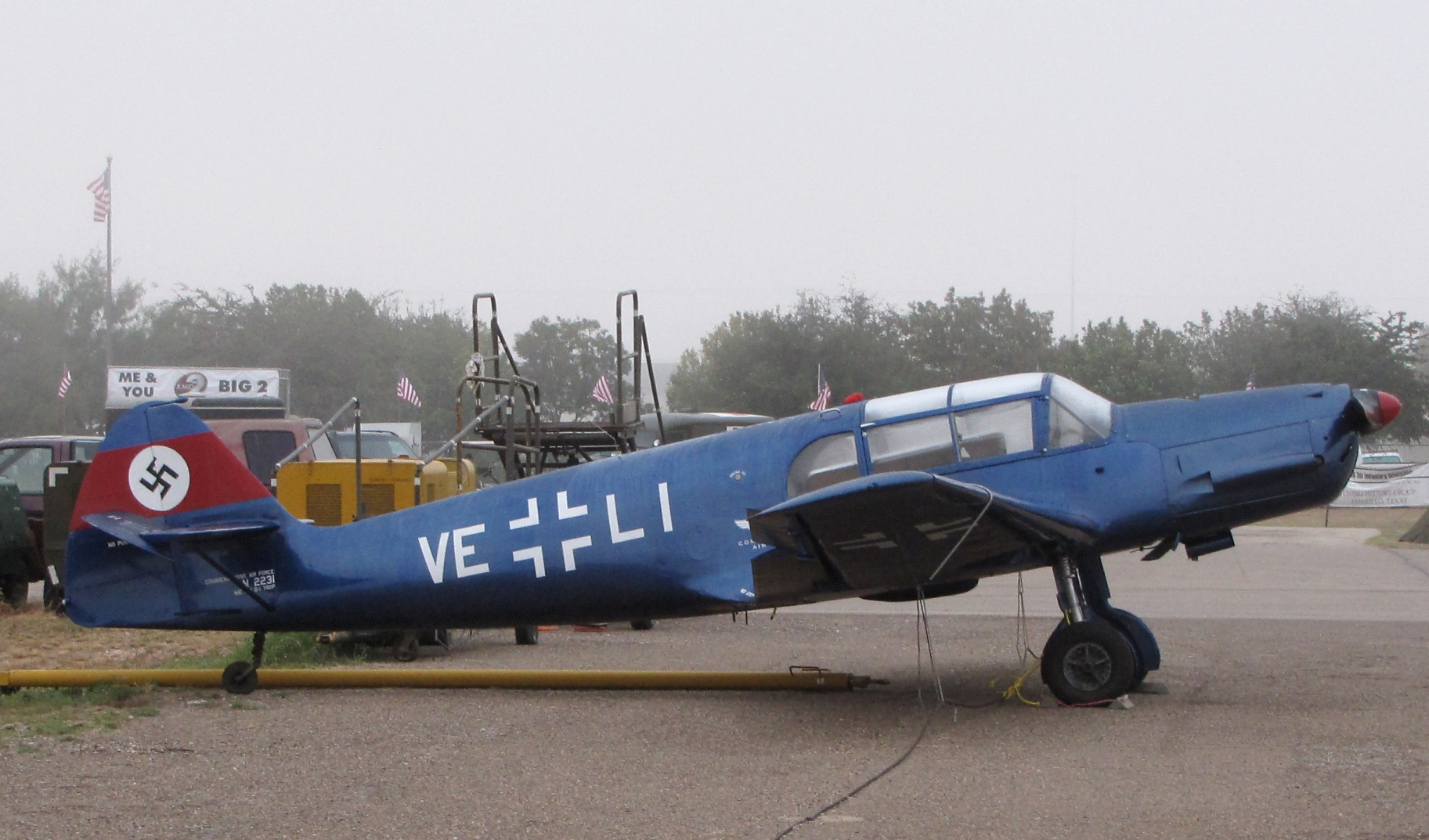 Messerschmitt Bf-108 Taifun, Midland, Texas